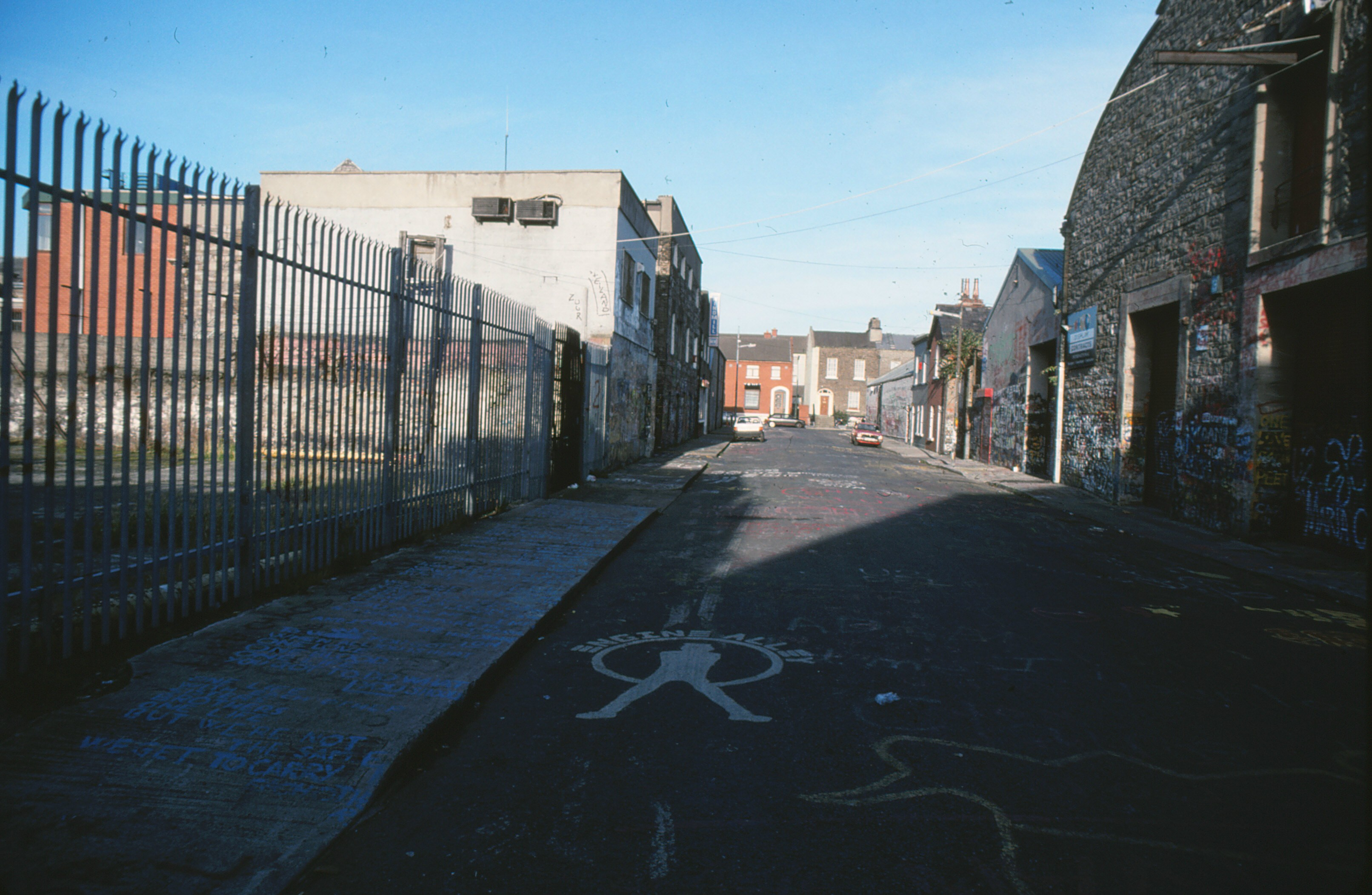 Windmill Lane in Dublin. Windmill Lane Studios are on the left. On the near left sidewalk in blue are the lyrics to U2's song "One".